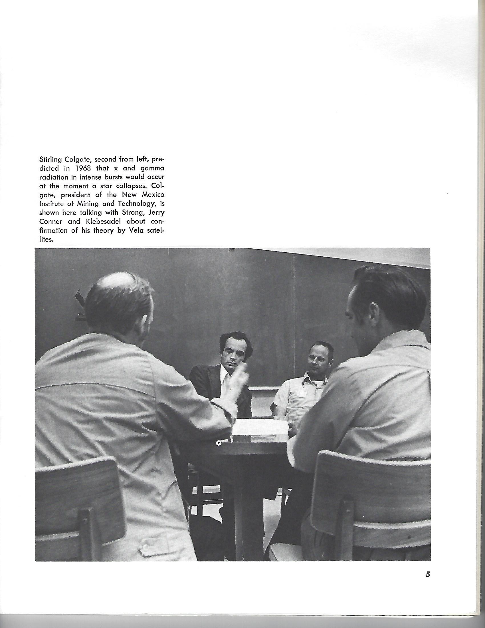 Picture of Dr. Stirling Colgate at LASL meeting.